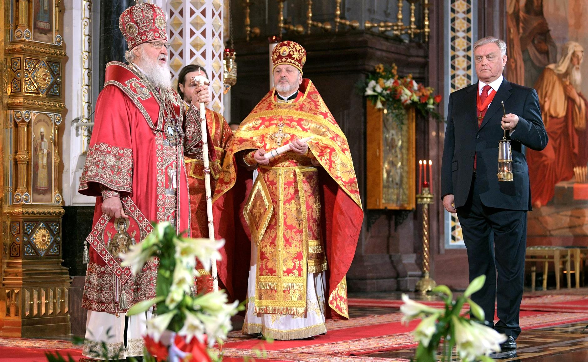 Easter service in the Cathedral of Christ the Saviour in Moscow, Russia, 2017-04-16